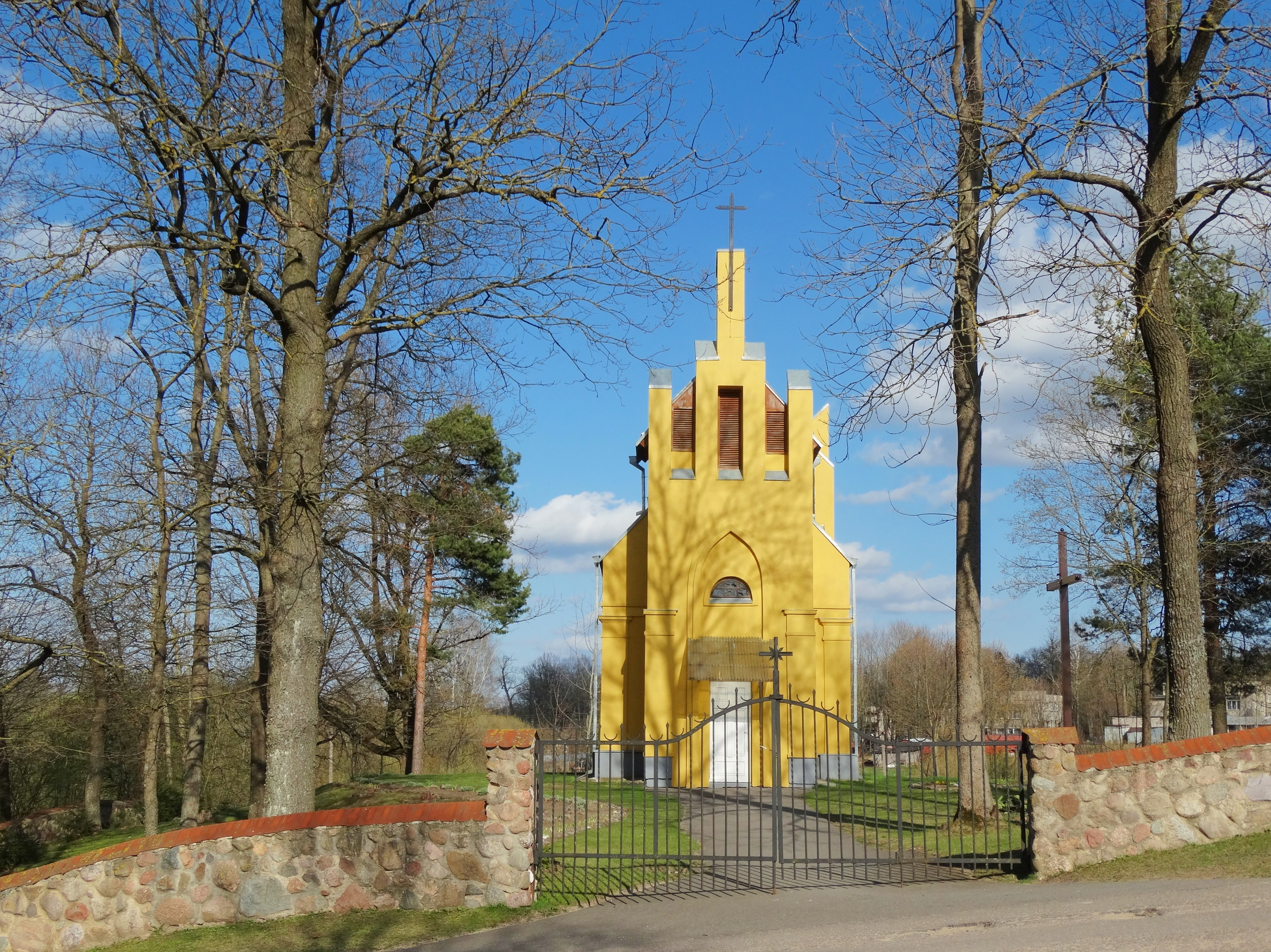 Faustyna Kowalska Chapel in Skaidiškės cemetery, Vilnius district, Lithuania